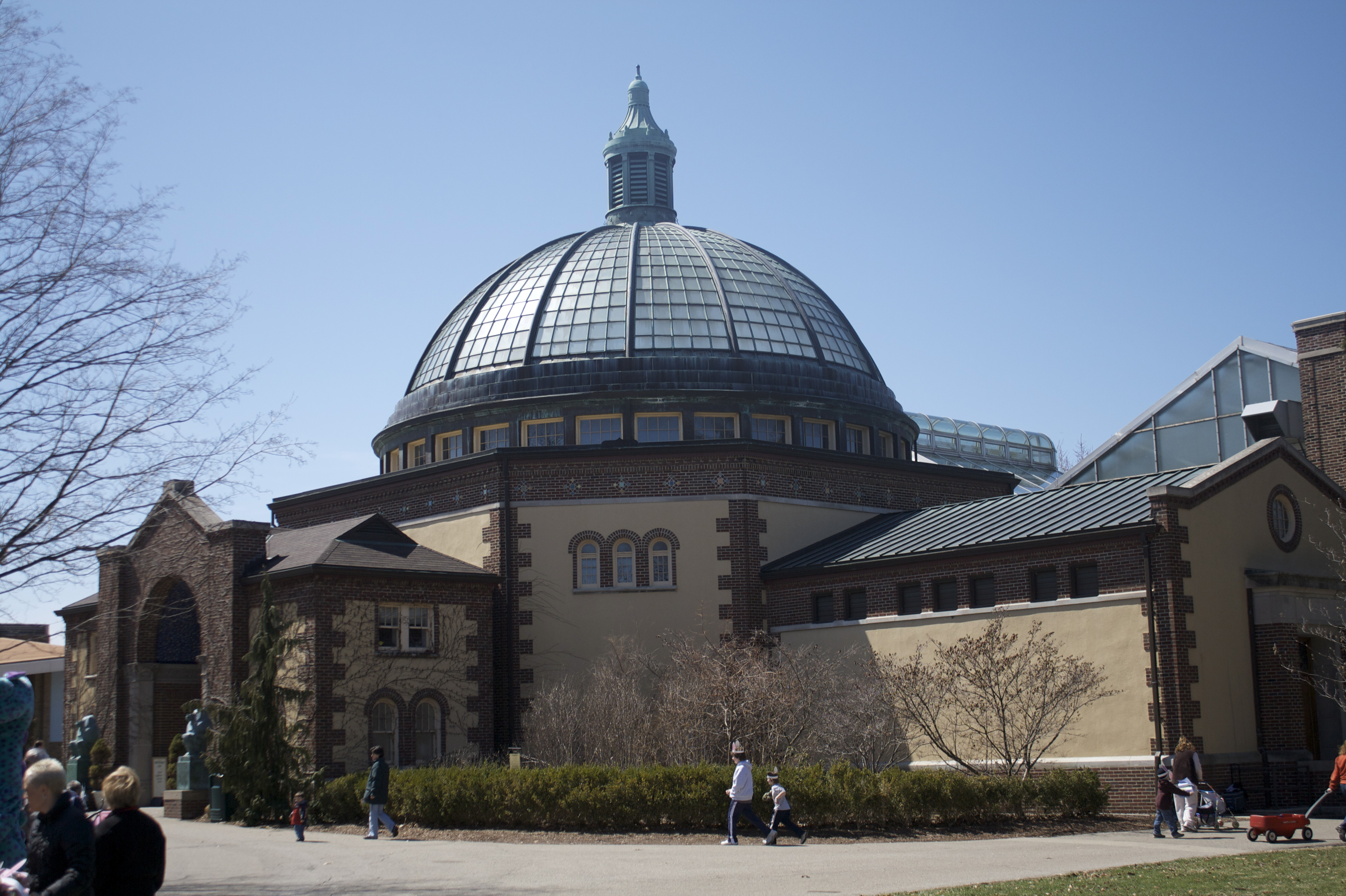 The old aviary at Detroit Zoo, Michigan, USA.